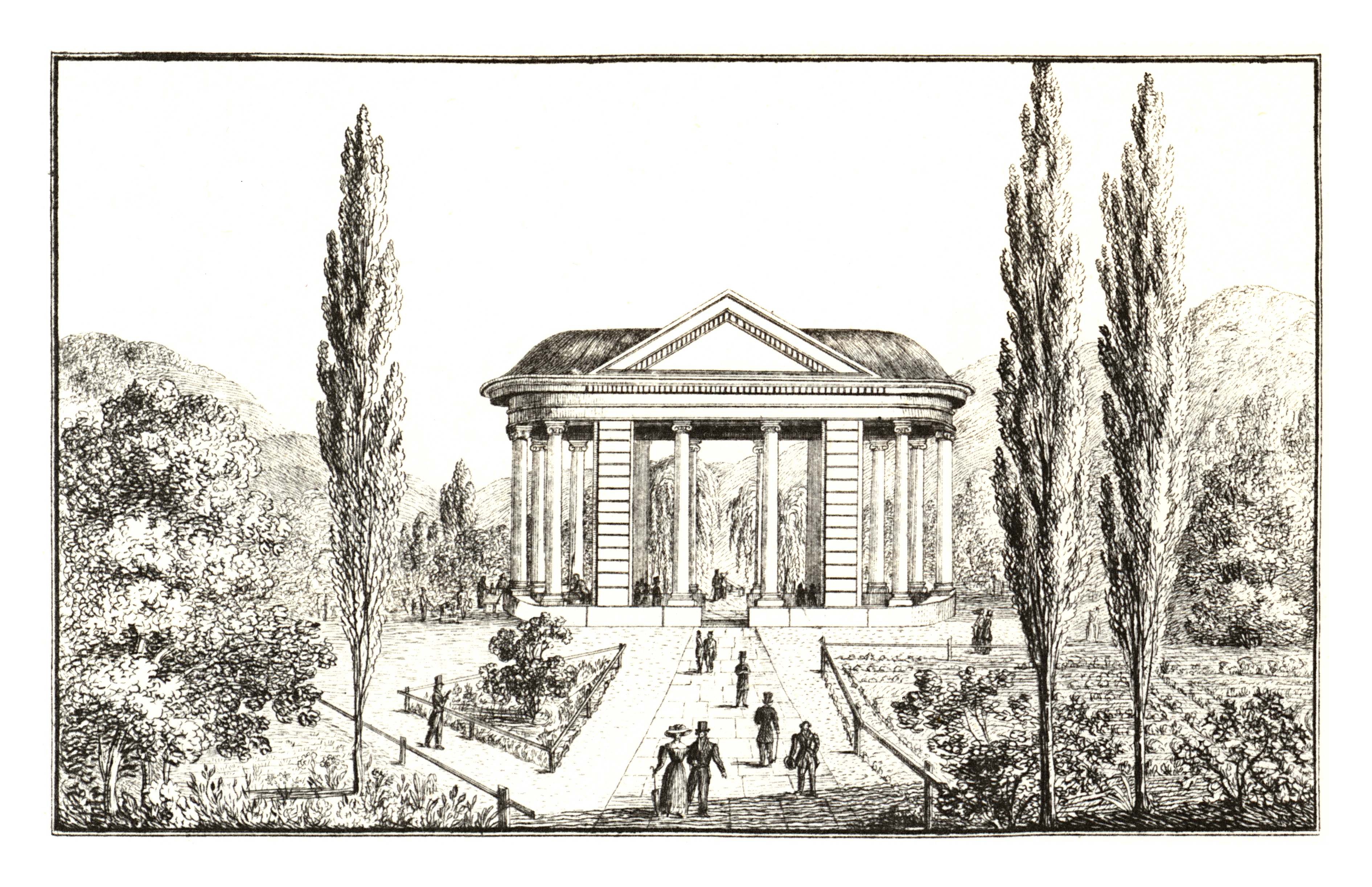 J. F. Kaiser - lithographirte Ansichten der Steyermärkischen Städte, Märkte und Schlösser, Graz 1824-1833 Joseph Franz Kaiser (1786–1859) Alternative names J. F. KaiserDescriptionAustrian printer and editorDate of birth/death 11 March 1786 19 September 1859Location of birth/death Graz (Styria) GrazAuthority control : Q1499963 VIAF: 30629353 ISNI: 0000 0000 3083 0153 LCCN: n87141671 GND: 129880159 NLP: A24960305 WorldCat creator QS:P170,Q1499963 . Scanprojekt Community Projektbudget 2012 This scan or this PDF-file was created within the GLAM-project Bookscanning, supported by Wikimedia Germany and Wikimedia Austria as a part of the community-project to capture books, documents and pictures which are not eligible to copyright or for which the copyright has expired. This document describes or depicts an object which is located in Austria today. Send requests for uncompressed scans to Hubertl. This work is in the public domain in its country of origin and other countries and areas where the copyright term is the author's life plus 100 years or fewer. You must also include a United States public domain tag to indicate why this work is in the public domain in the United States. This file has been identified as being free of known restrictions under copyright law, including all related and neighboring rights.